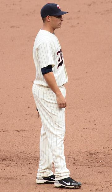 Minnesota Twins player Danny Valencia.